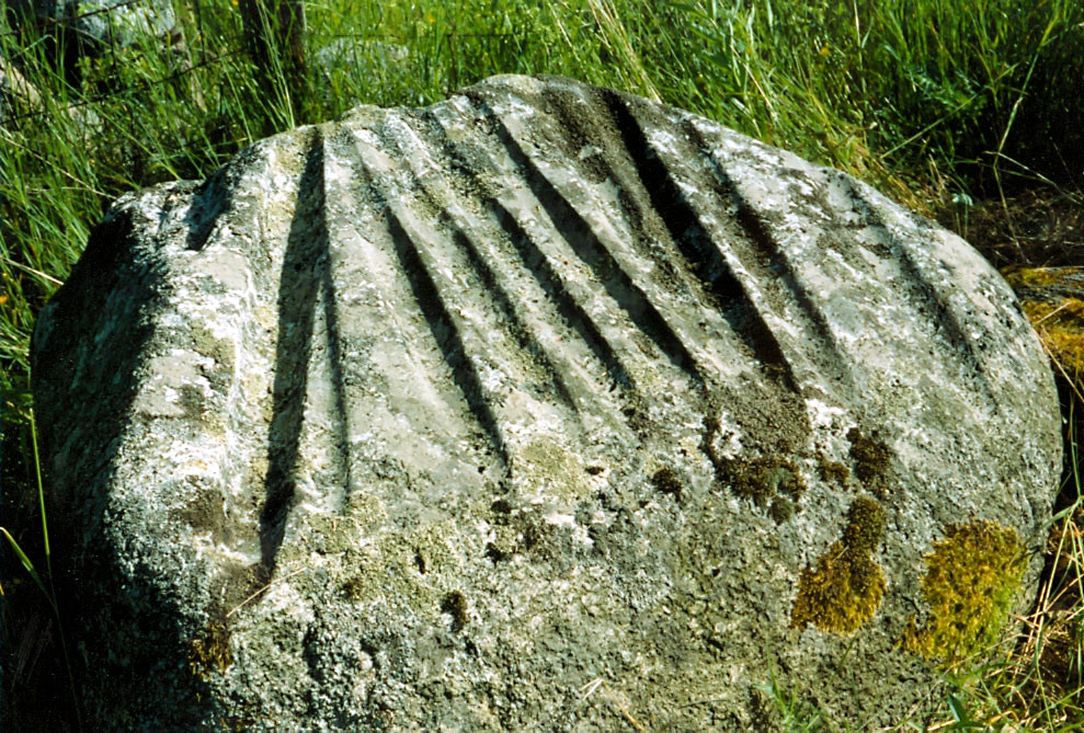 Grooves from Ronehamn, Gotland, Sweden.